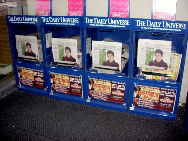 BYU's Daily Universe Newspaper (edited by mwilson3).